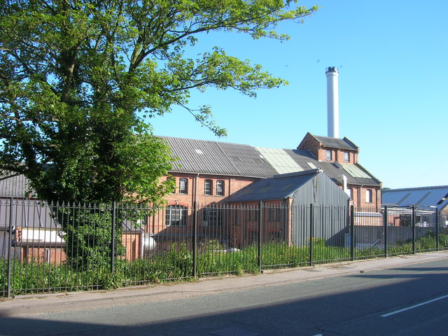 Nestles Factory, Clifton Road, Ashbourne Taken in June 2006 the picture shows the former Nestles Factory built in 1910. The factory produced Carnation Milk and other canned milk products, employing 117 people before production ceased and the factory closed in 2003. Demolitionn was completed in 2006, and site amelioration works are currently (Jan 2007)underway to prepare the site for redevelopment. It is intended that the site will be used for housing, light industrial and retail.